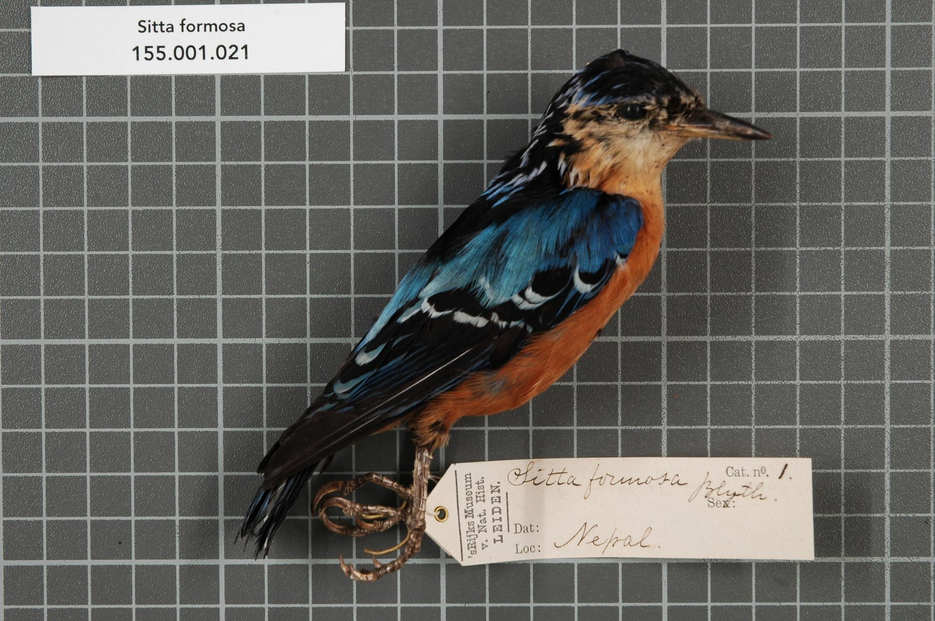 Sitta formosa Blyth, 1843